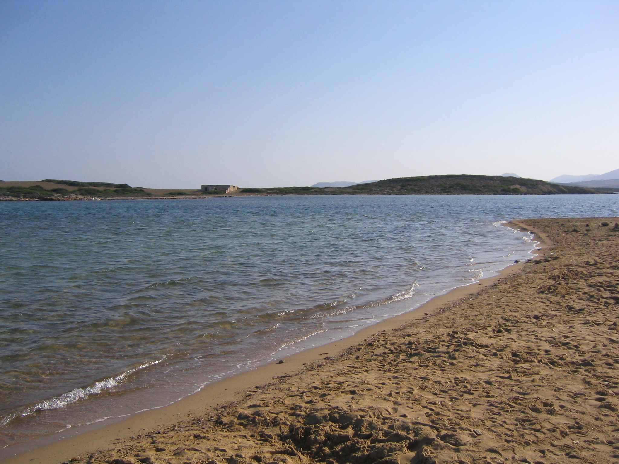 "The nudist beach 5 minutes out of Antiparos town on the island of Antiparos." Diplo Island, N of Andimilos, Cyclades, Greece